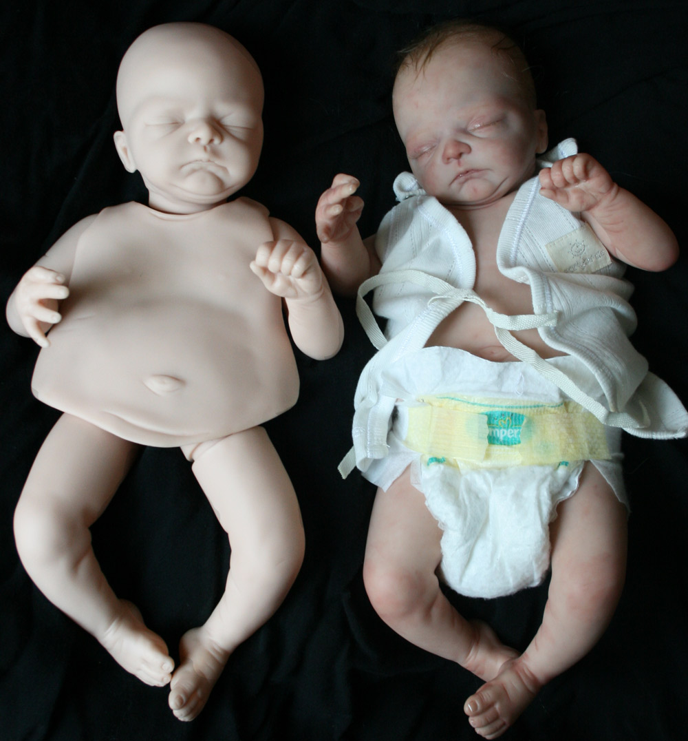 Reborn vinyl kit by Donna Lee